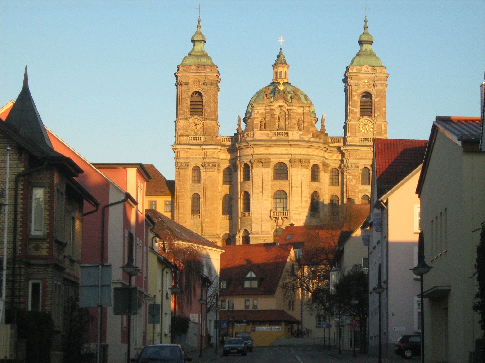 Basilica de Weingarten